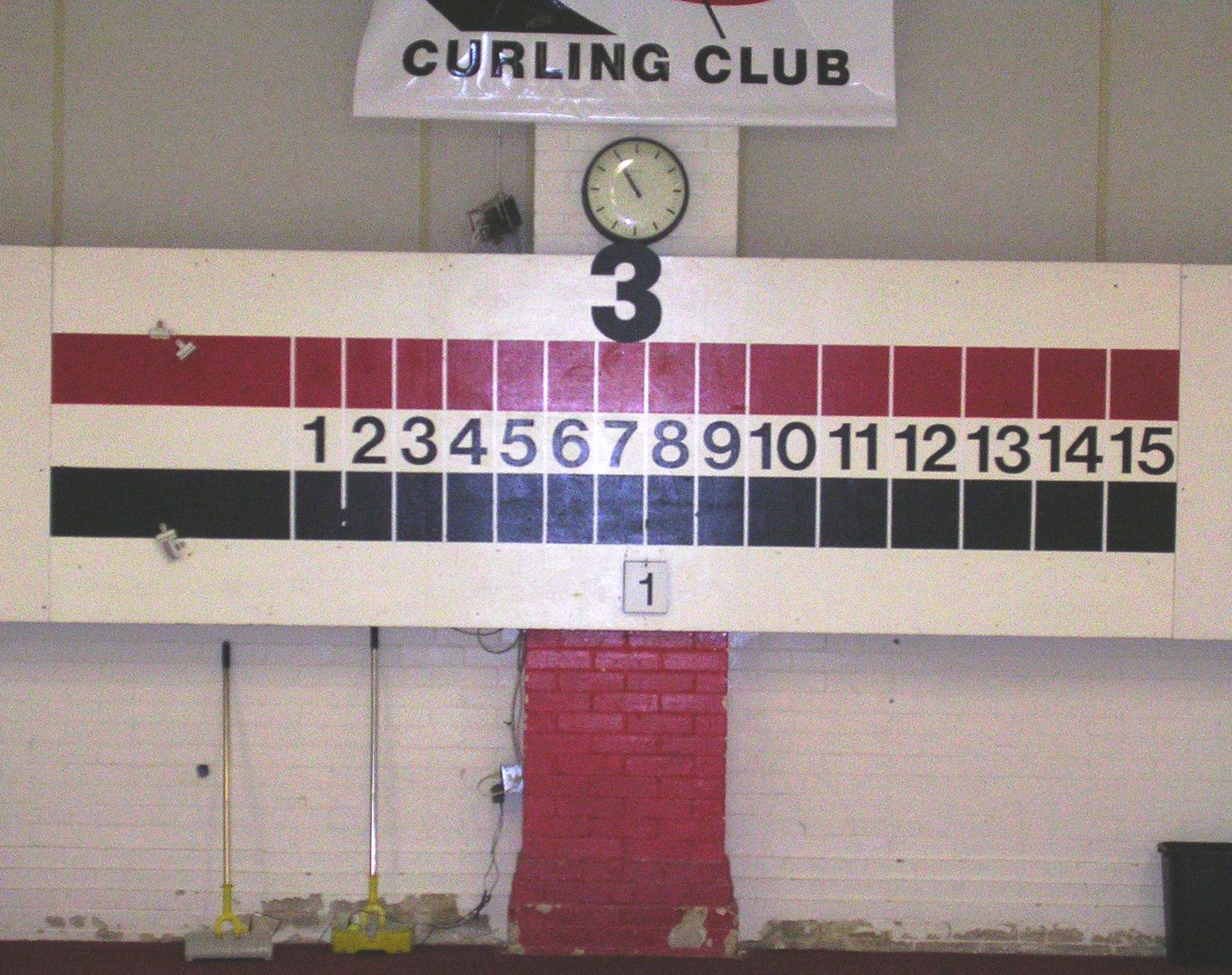 Curling score board